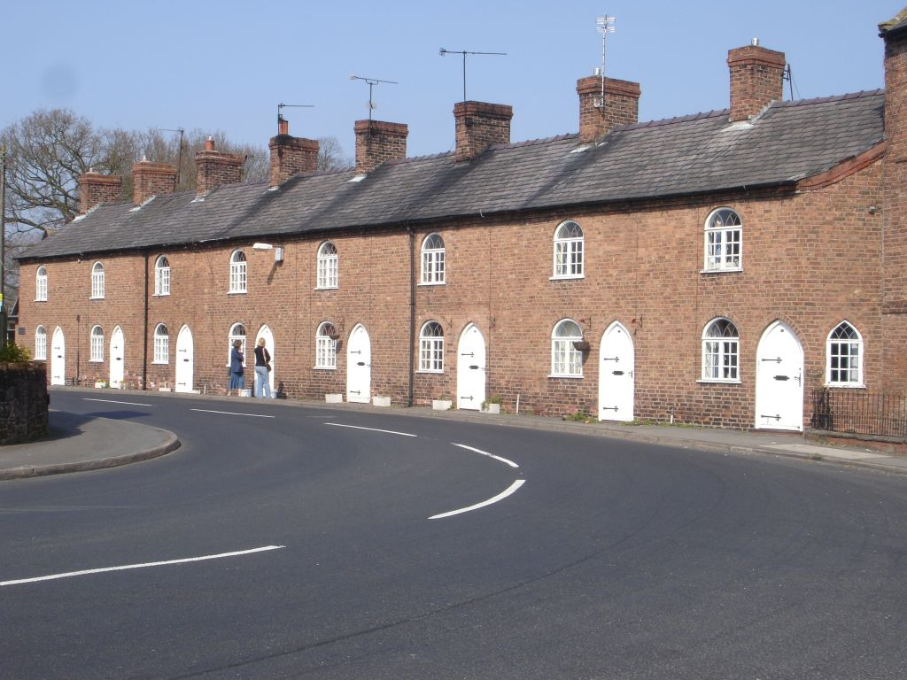 Overton-on-Dee High Street.